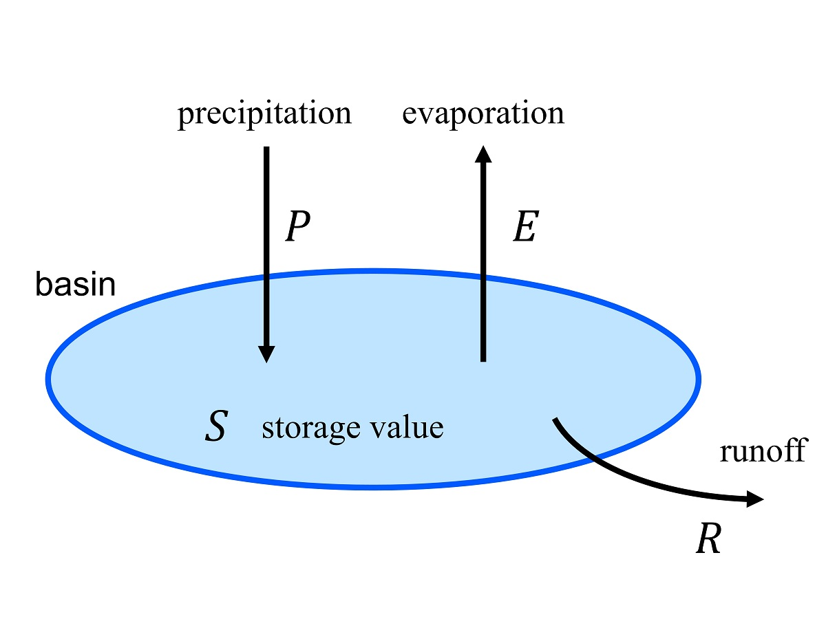 water balance in a basin; in this situation, P − E − R = Δ S {\displaystyle P-E-R=\Delta S}